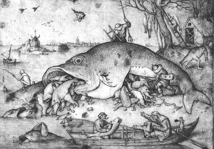 Big Fishes Eat Little Fishes. Pen in grayblue on paper. 215 × 302 mm. Vienna, Graphische Sammlung Albertina (inv.no. 7875).